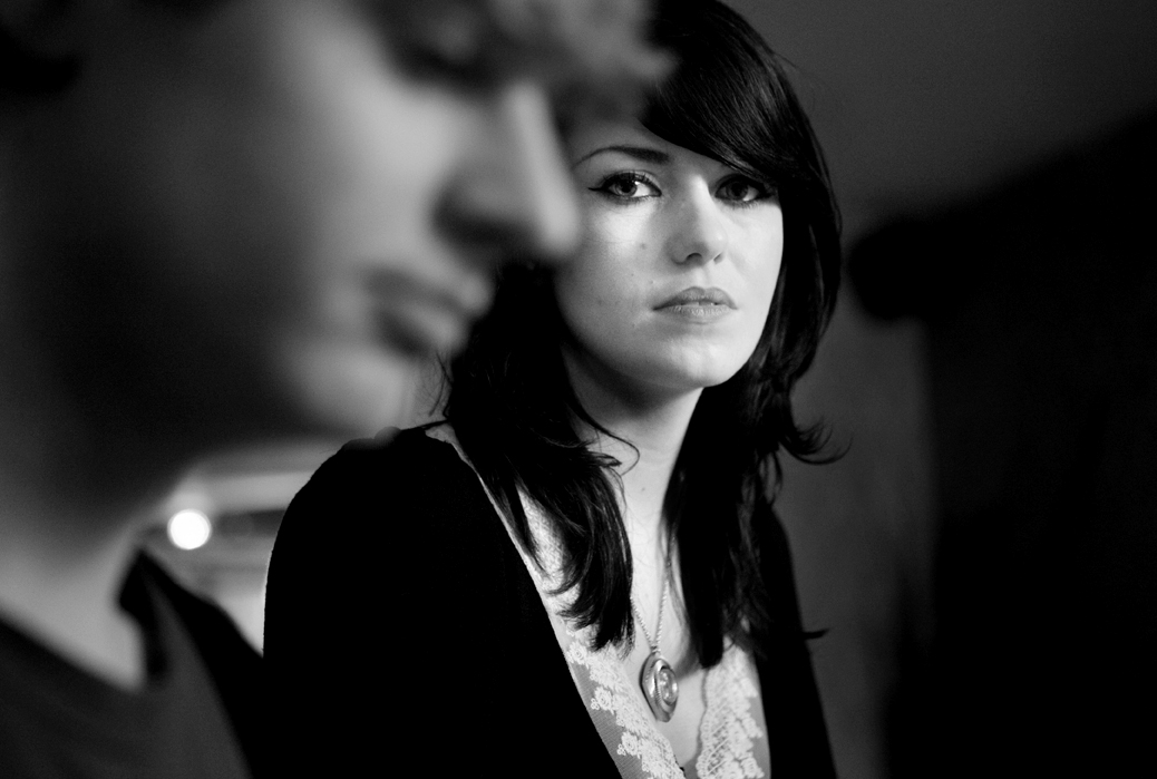 Blood Red Shoes